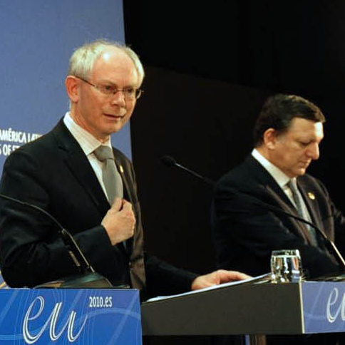 The President of the European Council, Herman van Rompuy and European Commission President Jose Manuel Durao Barroso, Madrid